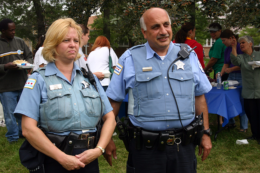 Chicago police officers